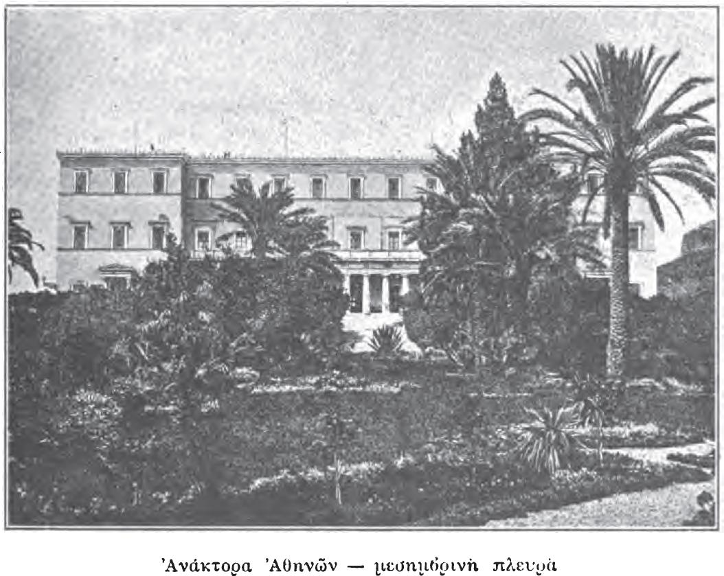 Hestia (1876) Author: Diomedes, Paulos Subject: Greek literature, Modern; Greek periodicals Publisher: [Athēnēsi : s.n. Year: 1894 Possible copyright status: NOT_IN_COPYRIGHT Language: Greek Digitizing sponsor: Google Book from the collections of: Harvard University Collection: americana]